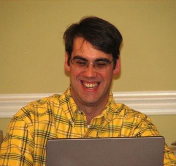 North Carolina Democratic Party Chair Jerry Meek listens and laughs while computing, not unlike the other attendees at a forum for political bloggers at the NCDP headquarters in Raleigh, January 27, 2007